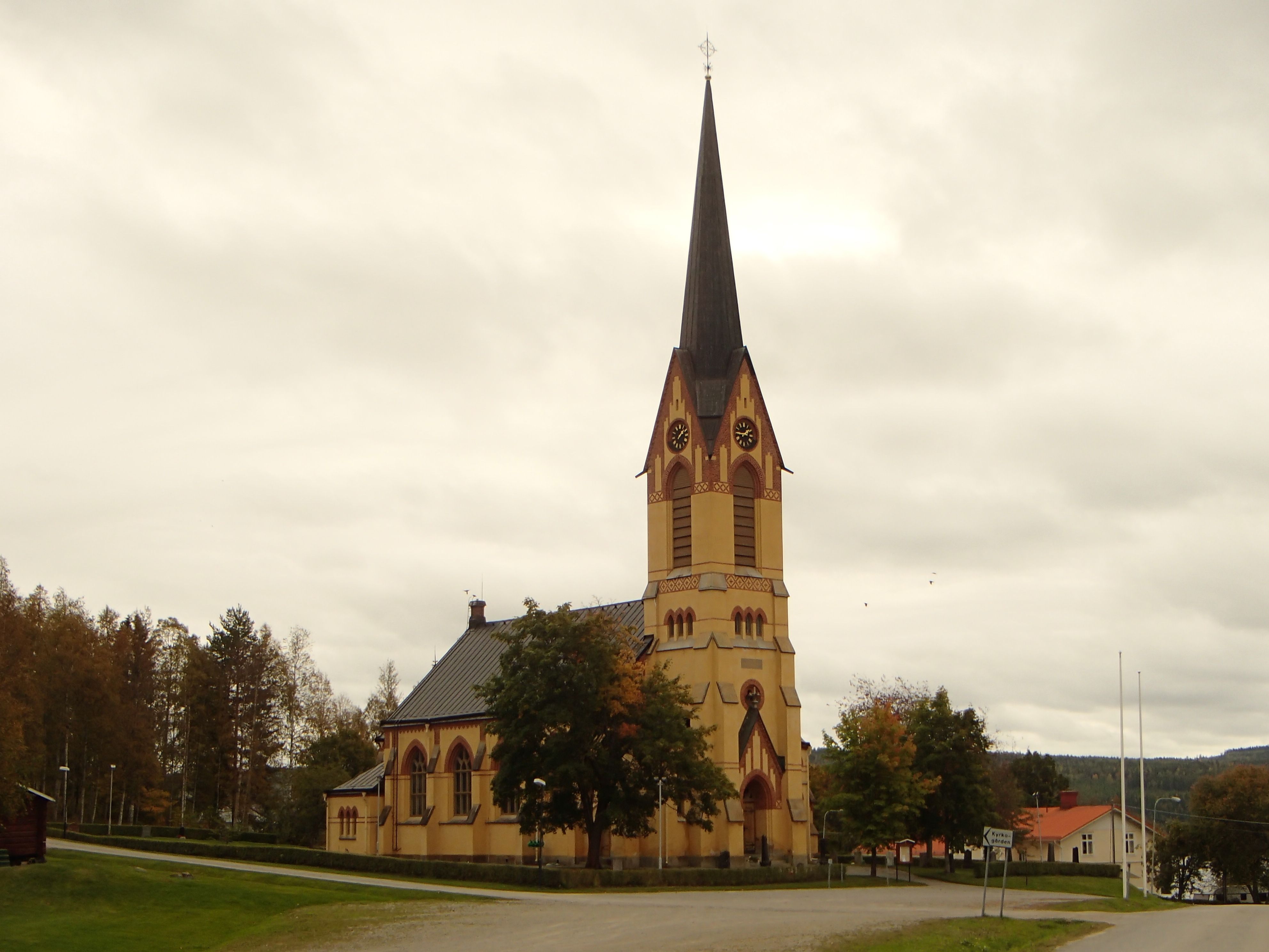 The church building of "Holms kyrka" at Anundgård in Holm, Sundsvall municipality